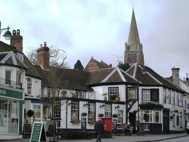 Fox and Hounds at Lyndhurst The High Street in Lyndhurst has a number of places for refreshment.